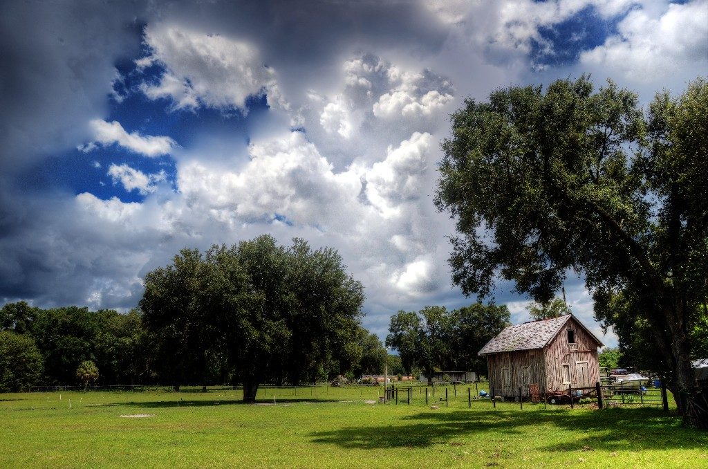 HDR photograph taken July, 2012. Field in Lacoochee, FL taken from CR 575 looking south.